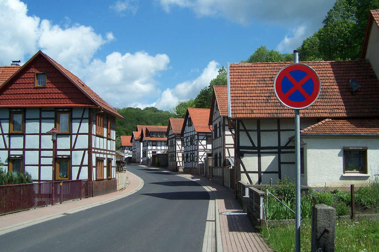 In Nazza village, Hauptstraße.